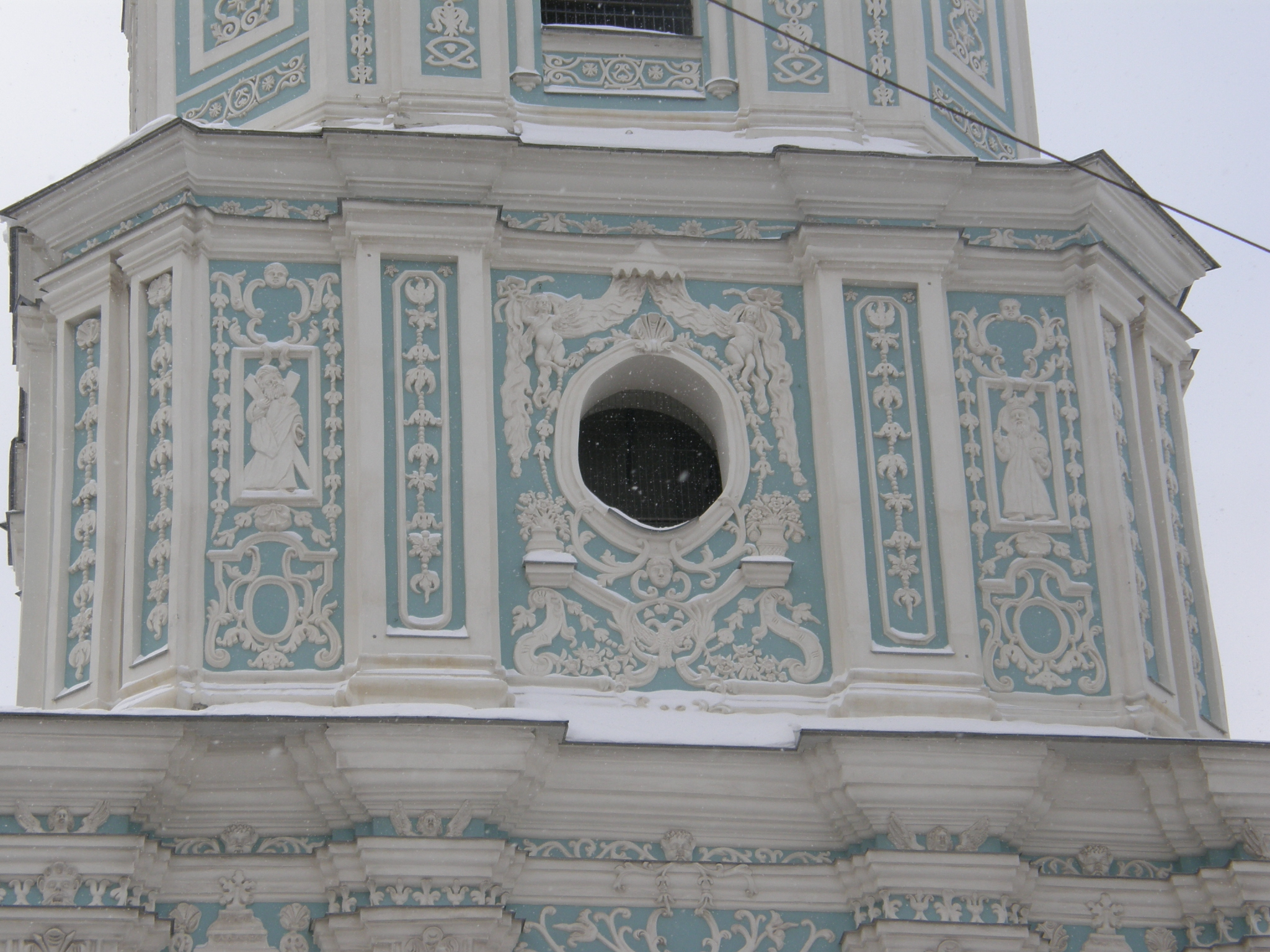 Kiev. Saint Sophia Cathedral in Kiev